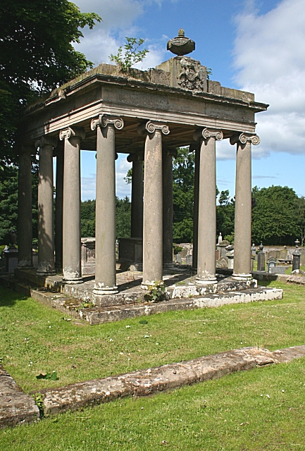 Gordon Mausoleum This tomb in the form of an open temple with 12 Ionic columns dates from about 1825. It contains the grave of Jean Christie, second wife of Alexander, 4th Duke of Gordon, who died on 27 August 1824. "Long before the decease of the Lady Jane Maxwell, the 4th Duchess, the lecherous eyes of her husband, Duke Alexander, were set on Jean Christie, whose face and figure fascinated him. She was of humble descent, and resided in Fochabers, where he regularly visited her, and even aired her in his carriage. She bore nine children to his Grace, to whom, 'after proclamation on three separate Sabbaths' she was married on the 30th day of July 1820 by the Rev William Rennie. minister of the parish of Bellie. Excepting this escapade, Jean Christie's charities and multifarious good works to the people about the place were most praiseworthy. She was buried at Bellie Churchyard on the 2nd August 1824, aged 54, in a vault under a fine mausoleum supported by 12 pillars." [after Lachlan Shaw, 'The History of the Province of Moray, edited by J F S Gordon, 1882. Volume 1, page 58]